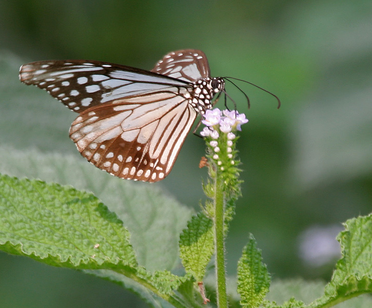 Glassy Tiger Parantica aglea at Jayanti in Buxa Tiger Reserve in Jalpaiguri district of West Bengal, India.